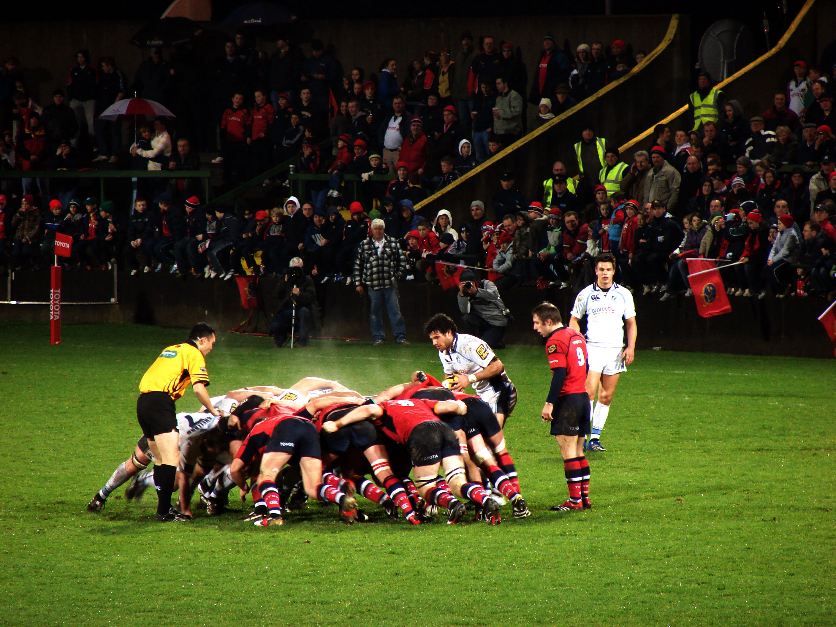 A scrum during a game between Cardiff Blues and Munster in the Magners League.